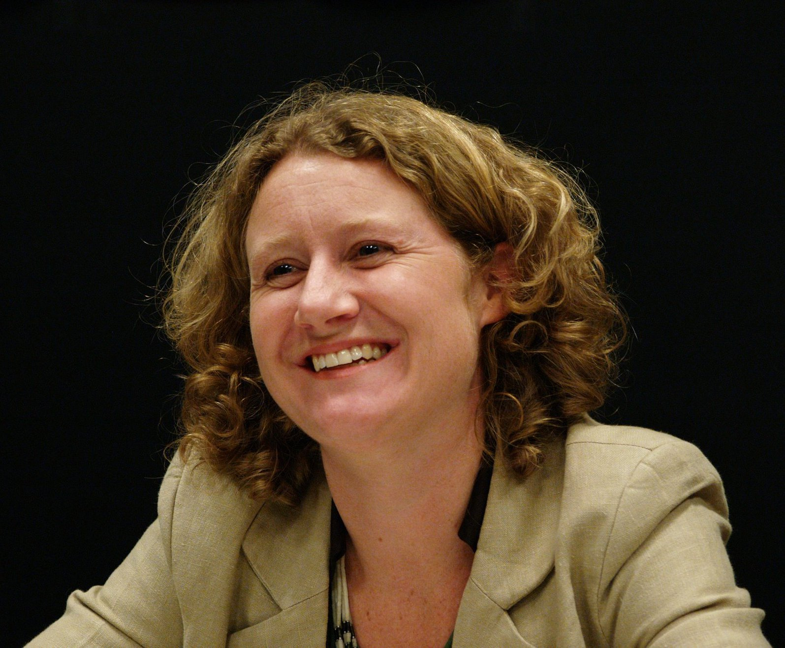 top candidate for the 2009 elections Judith Sargentini